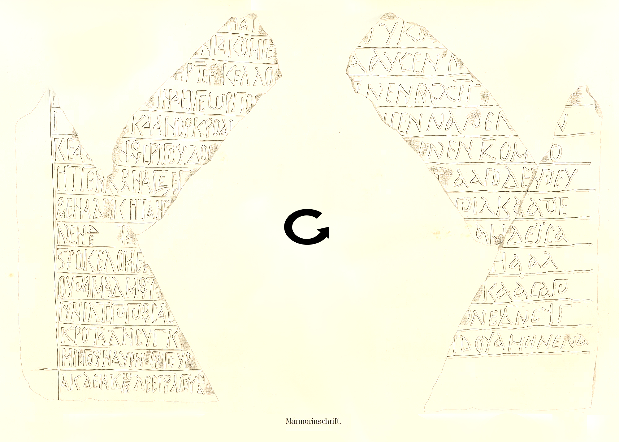 Based on Lepsius' "Denkmäler aus Ägypten und Äthiopien". The inscription is written in a southern Nubian dialect different from that spoken in Makuria. For more info see here